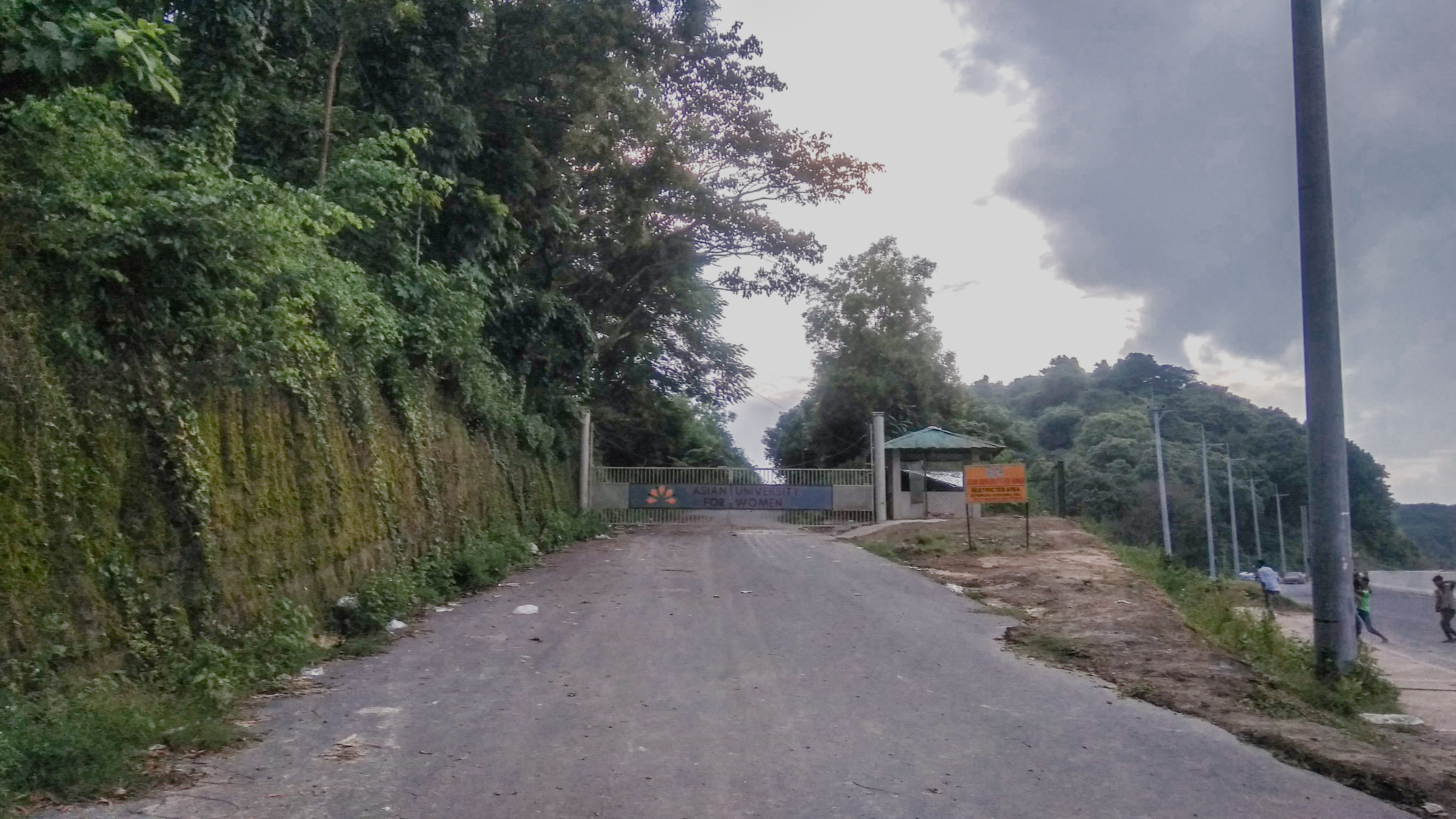 This is the entrance of the AUW campus in Chittagong. This campus is located beside Bayezid link road, the first ever bypass road in Chittagong.